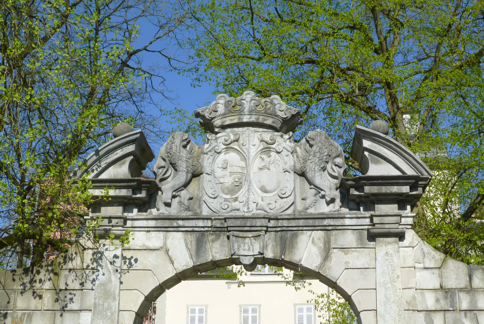 Castle gate with coats of arms of family Stein, Nassau (Lahn), Rhineland-Palatinate.